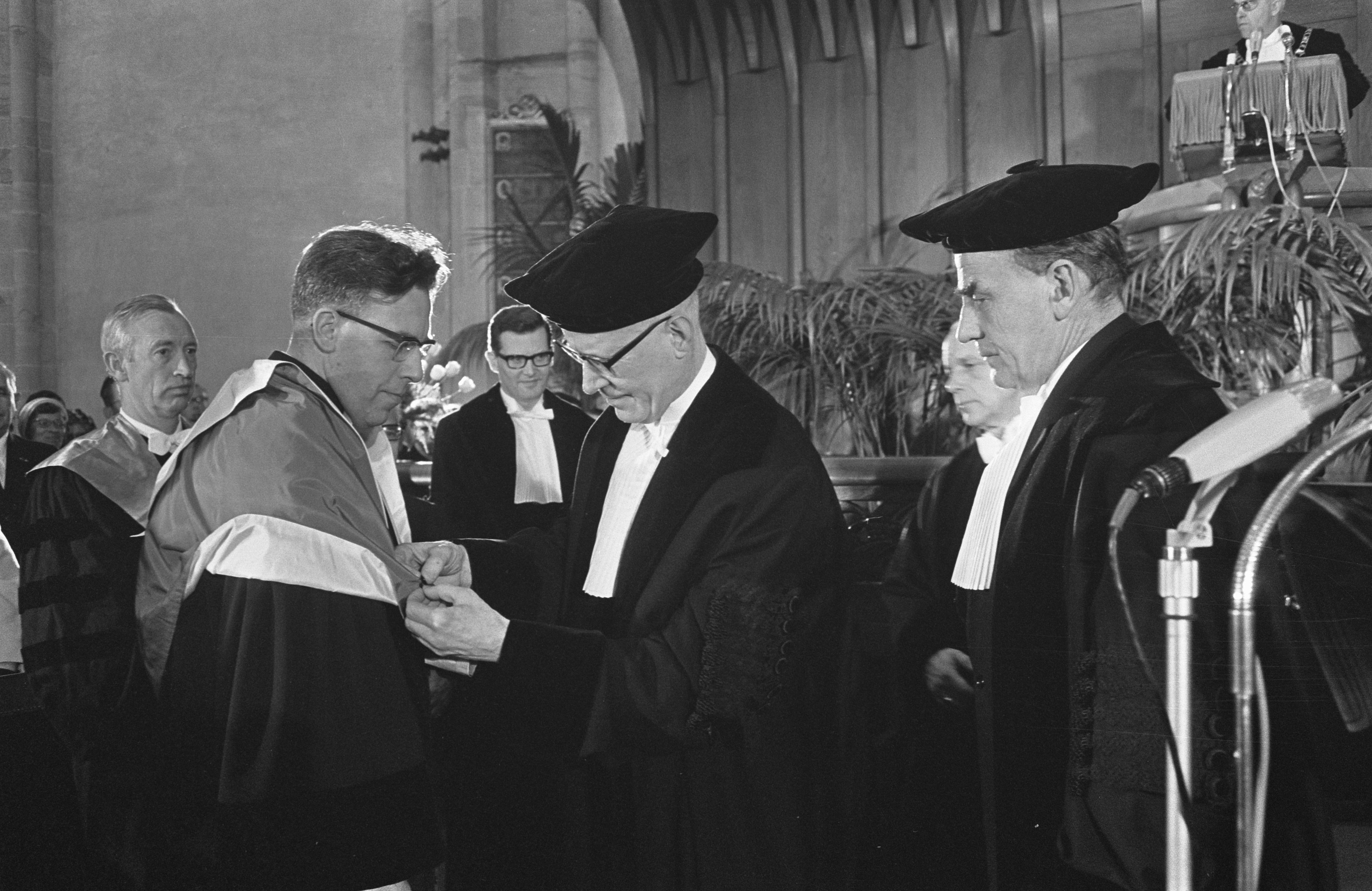 Honorary doctorate Utrecht University (the Netherlands), 19 April 1966. Doctorate handed over to Willem Barnard (Guillaume van der Graft). Far left: Paul Zamecnik. Far right: Prof. J. de Graaf